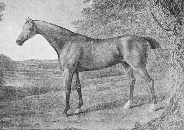 Picture of the racehorse Penelope